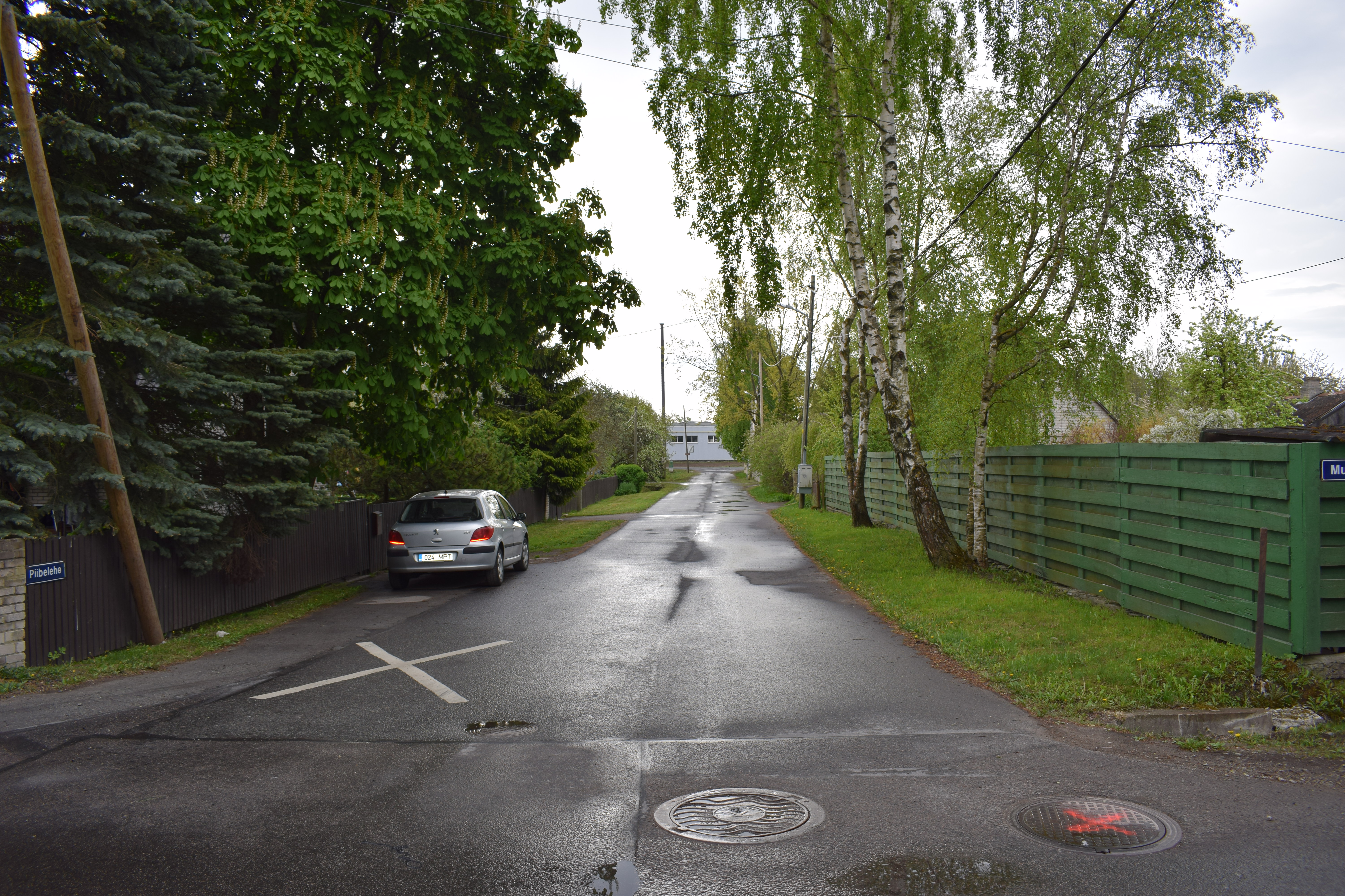 Piibelehe street